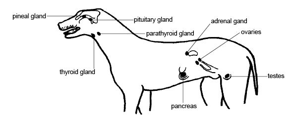 The main endocrine organs of the body